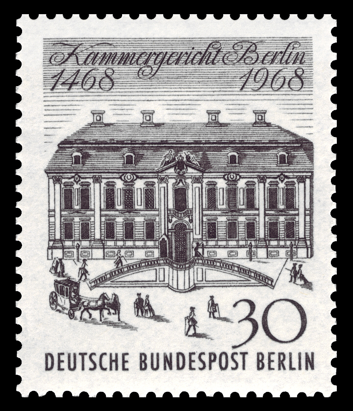 500 years of the Kammergericht of Berlin